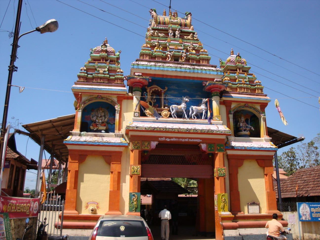 my own work